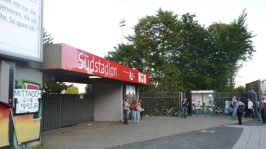 Main Entrance to Cologne's Südstadion (South Stadium)